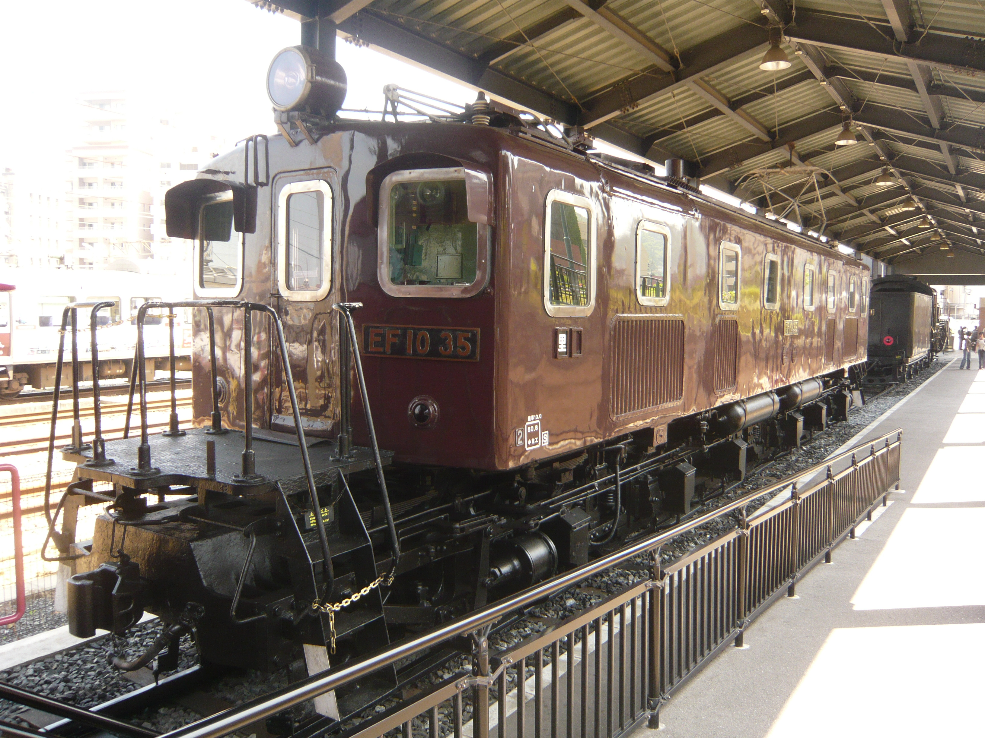 Preserved Class EF10 electric locomotive EF10 35 at the Kyushu Railway History Museum in Kitakyushu, Fukuoka, Japan